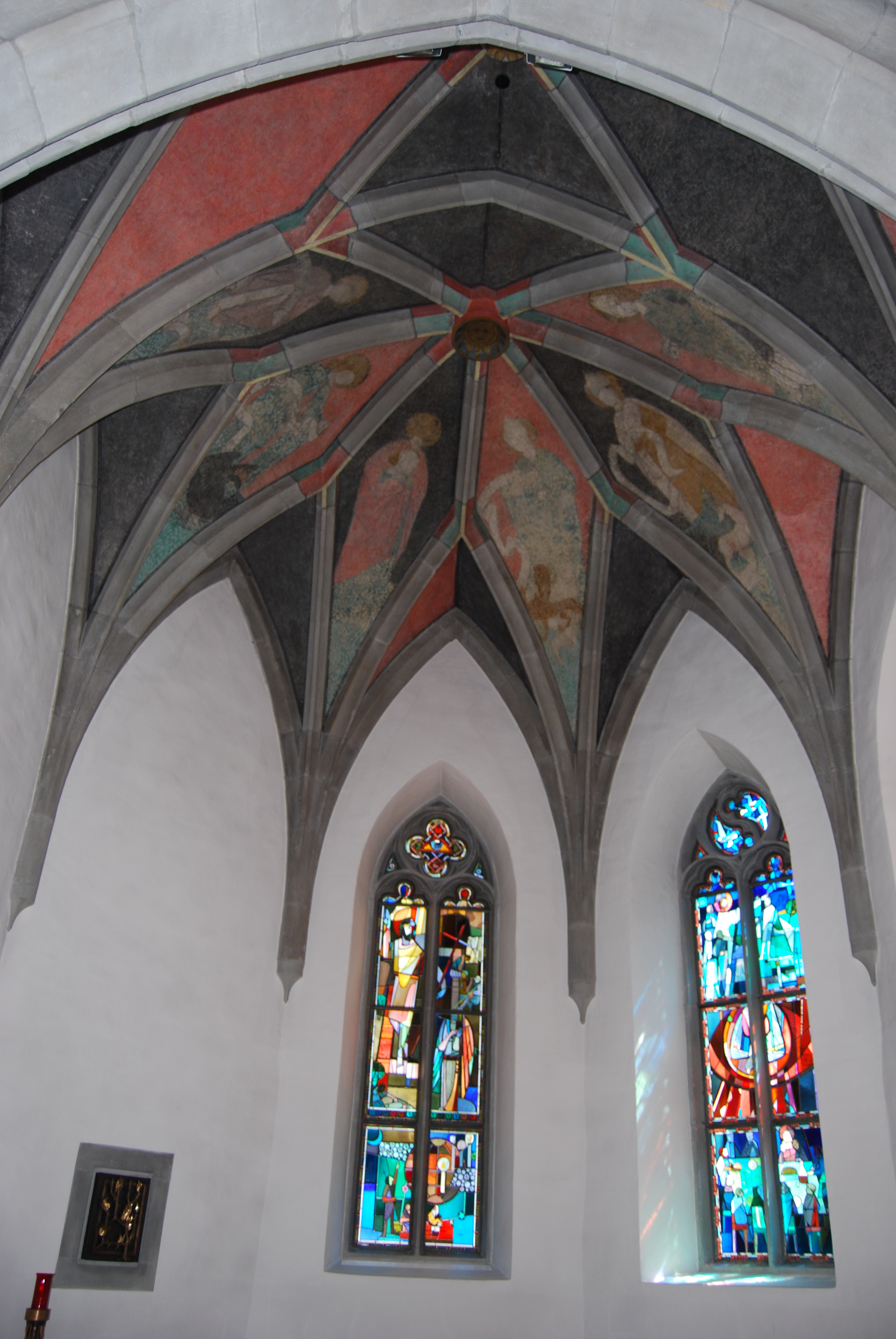 Church of Oberhelfenschwil, canton of St. Gallen, Switzerland